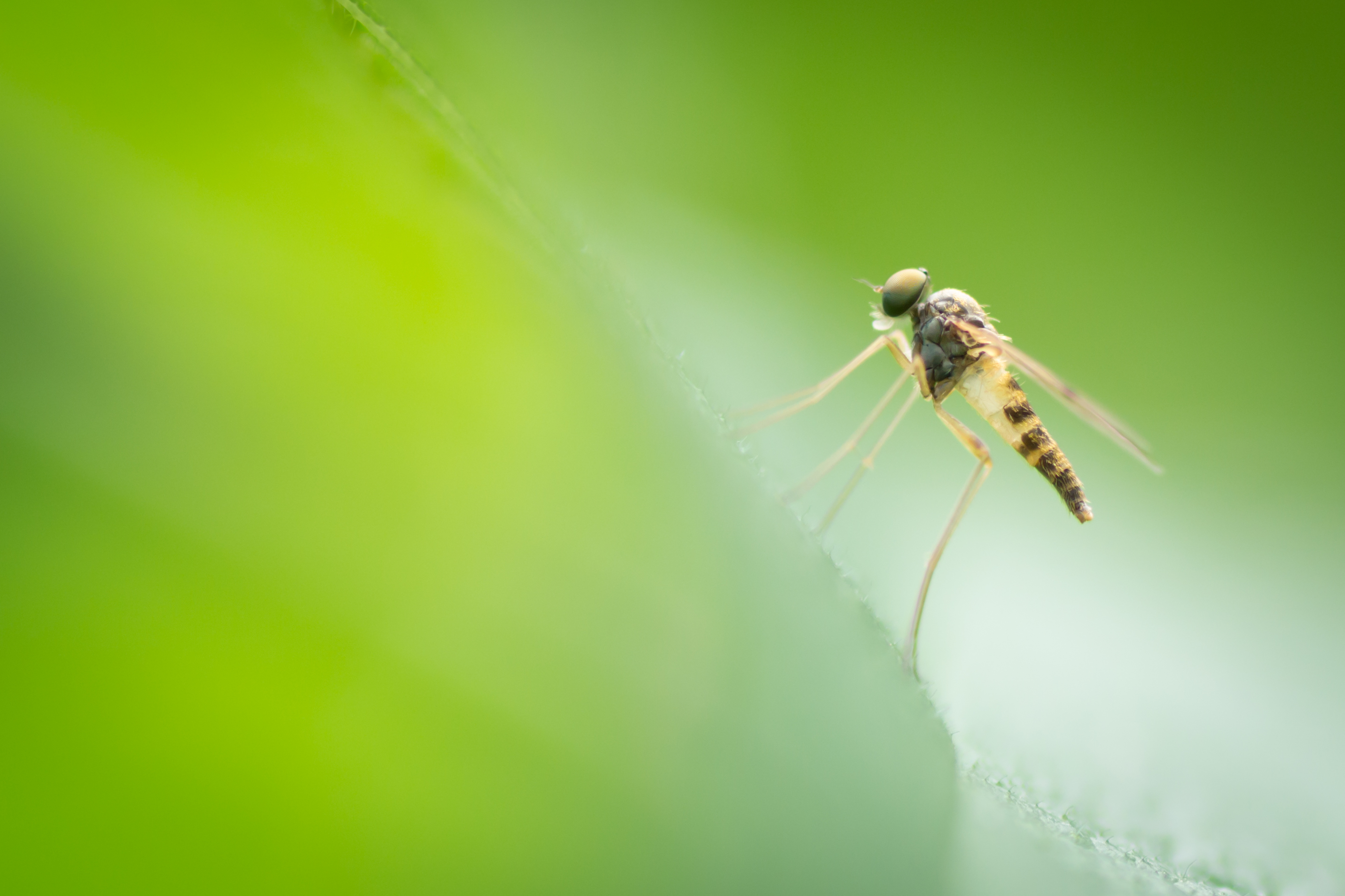 Backyard, Fairfield, Ohio